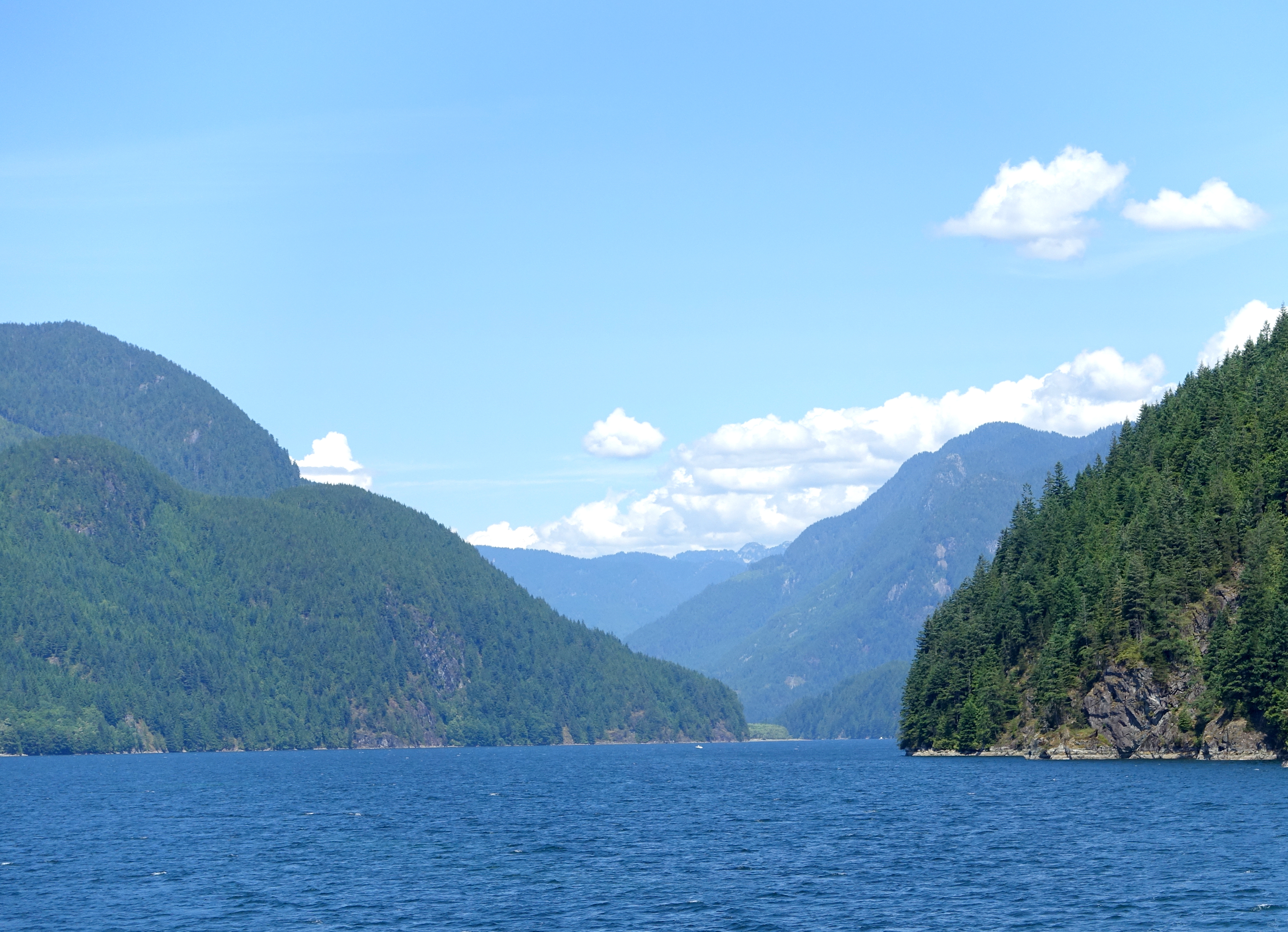 Indian Arm - near Vancouver, British Columbia, Canada.